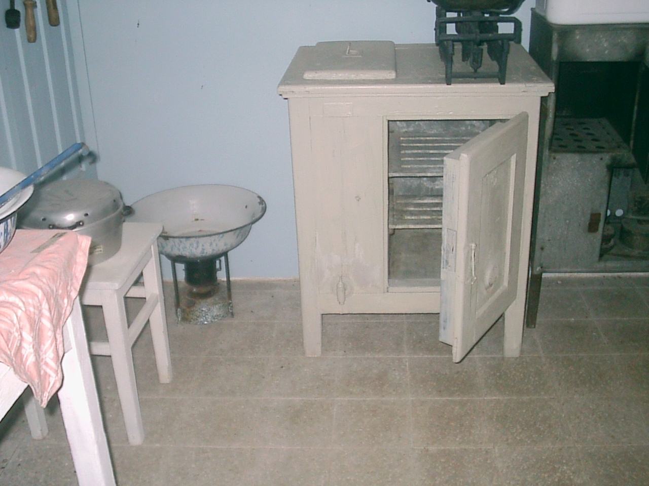 The ice box was put in ice and keep food refrigerated even before he was a refrigerator on electricity